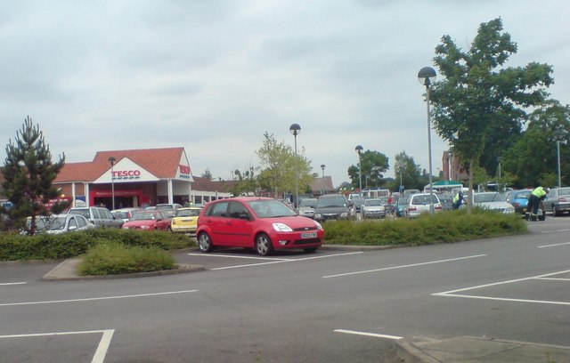 Tesco on St Peters Worcester The corner shop for the estate .